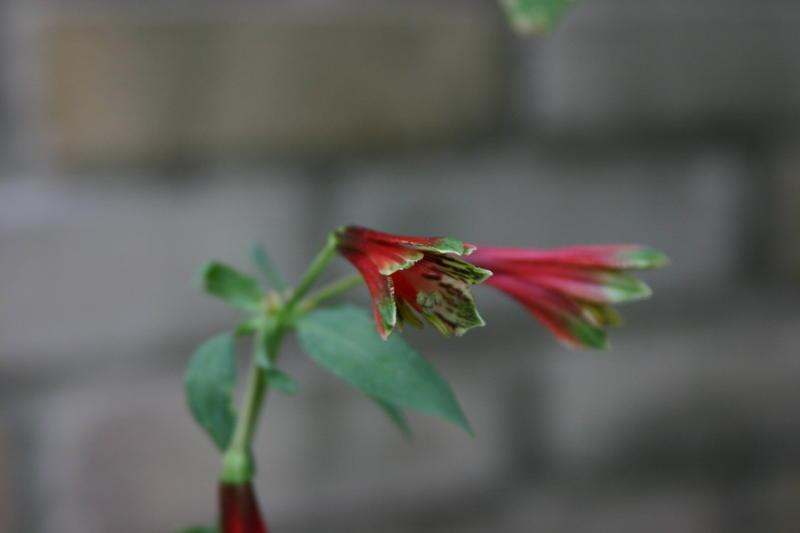 Parrot Lily (Alstroemeria psittacina), also known as Parrot Flower, Peruvian Lily, Lily of the Incas, or Princess Lily